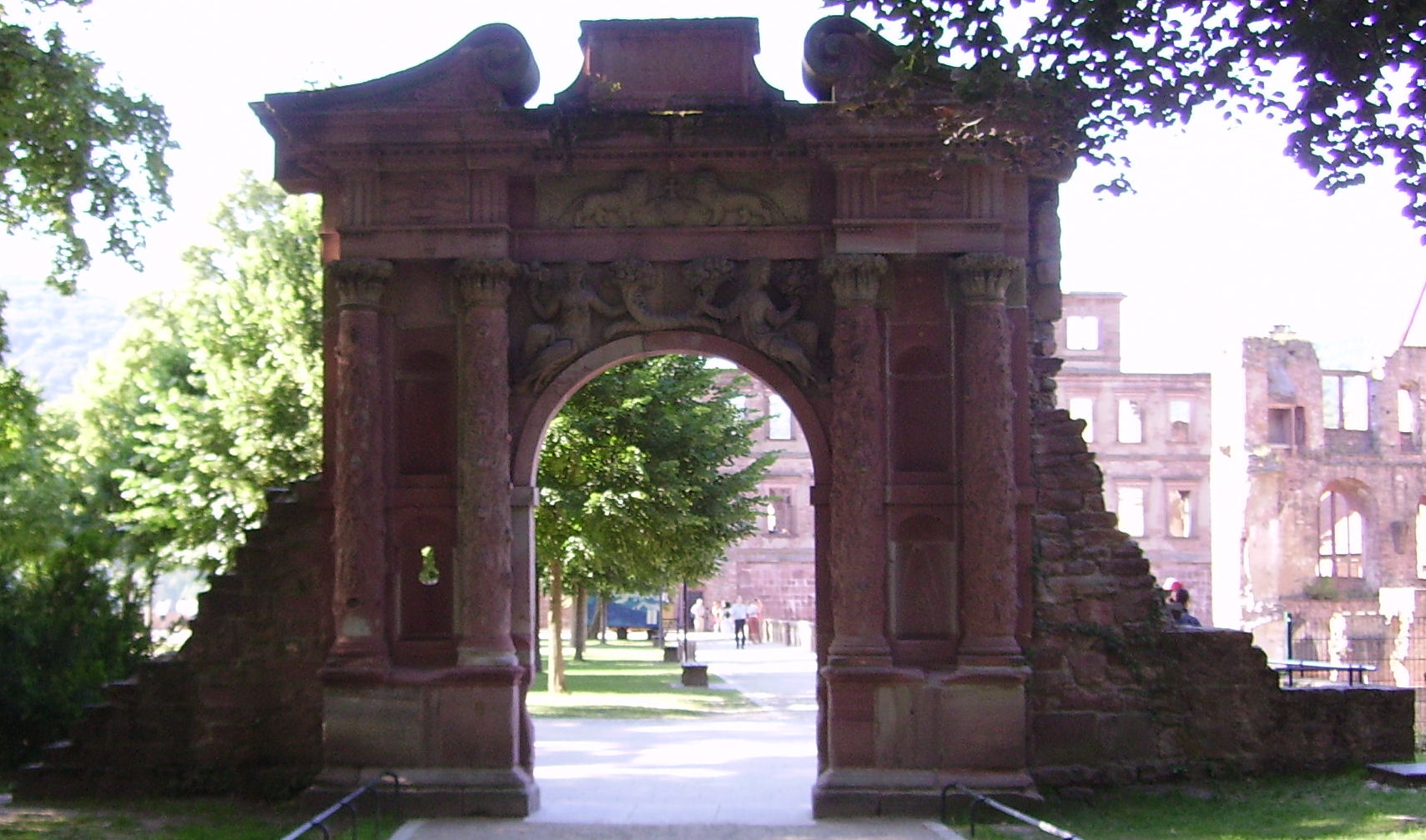 part of Heidelberg castle (Heidelberger Schloss)